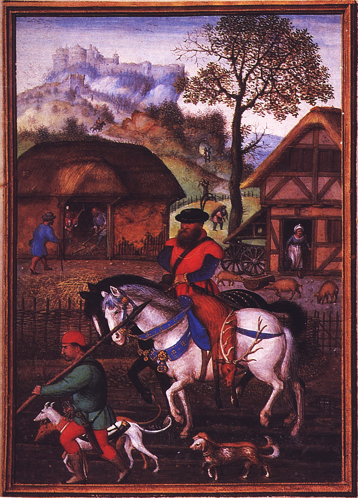 Labors of the Months: November, from a Flemish Book of Hours (Bruges)